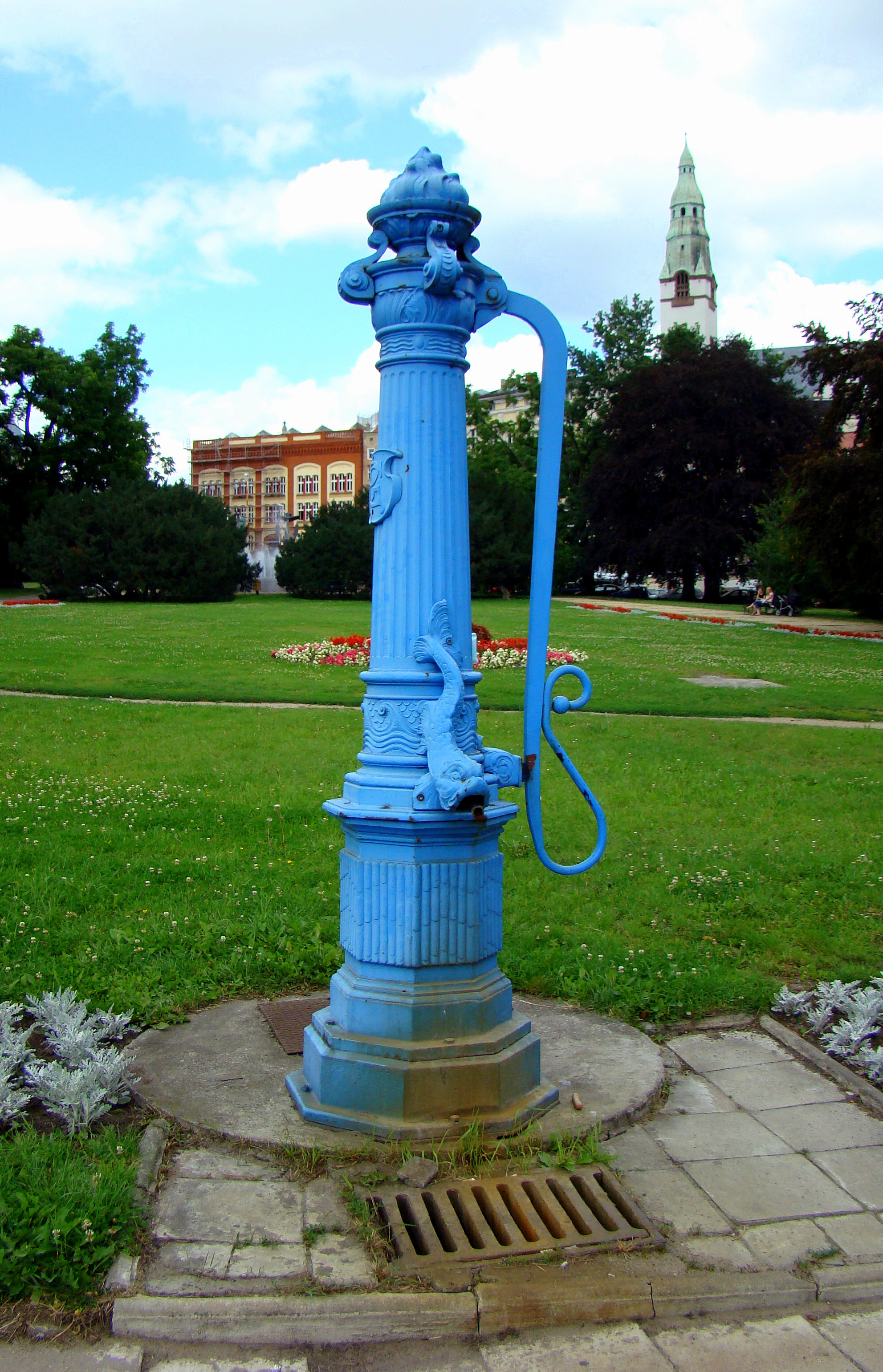 Tobrucki Square (Pump), Szczecin, Poland